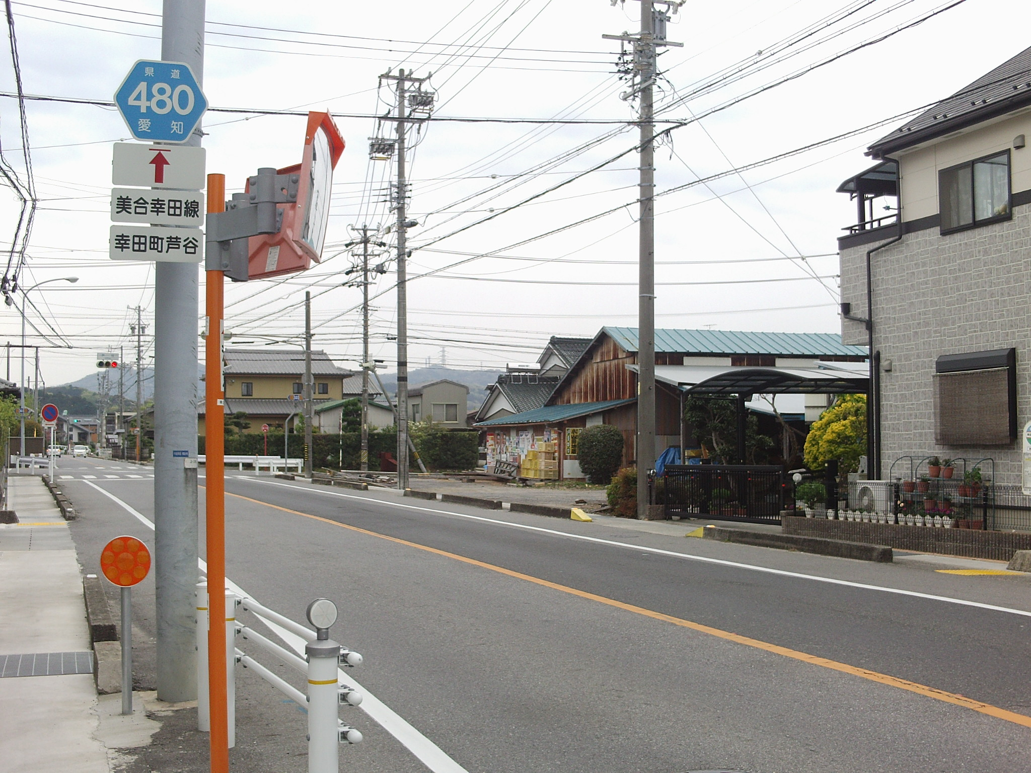 Aichi prefectural road No.480 in Ashinoya, Kota-cho, Nikata-gun, Aichi.